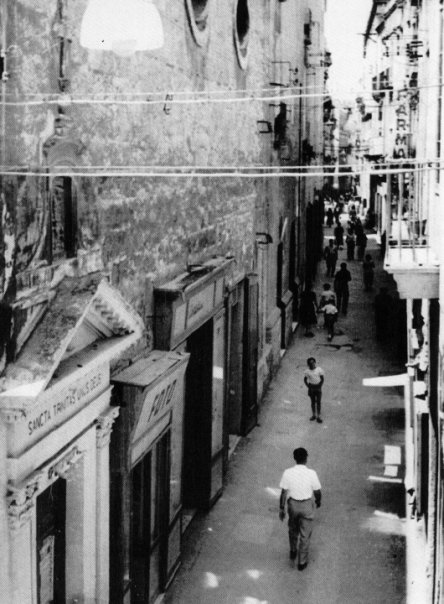 Church of Trinty before the demolation